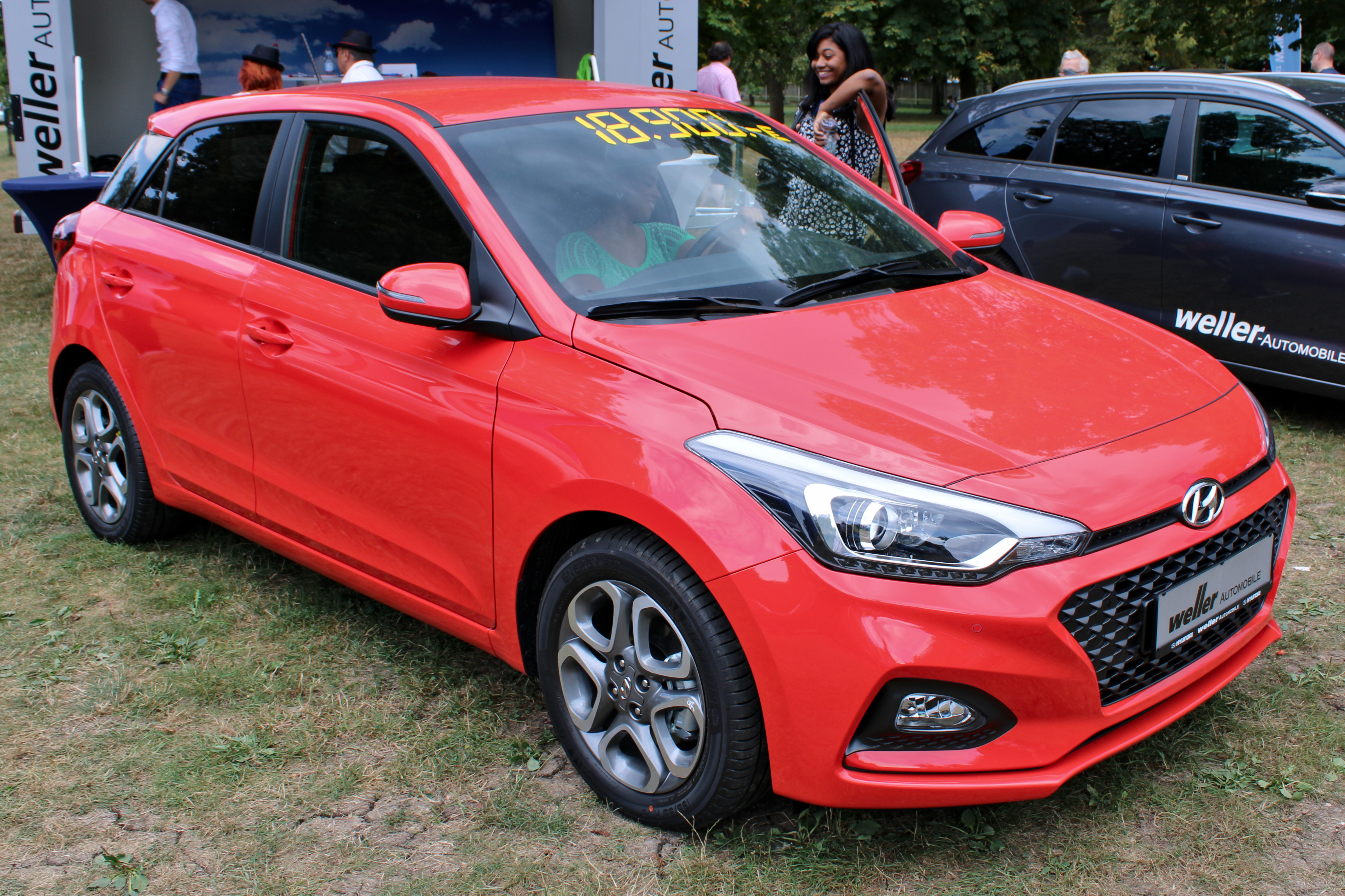 Hyundai i20 (Facelift) at schloss Monrepos